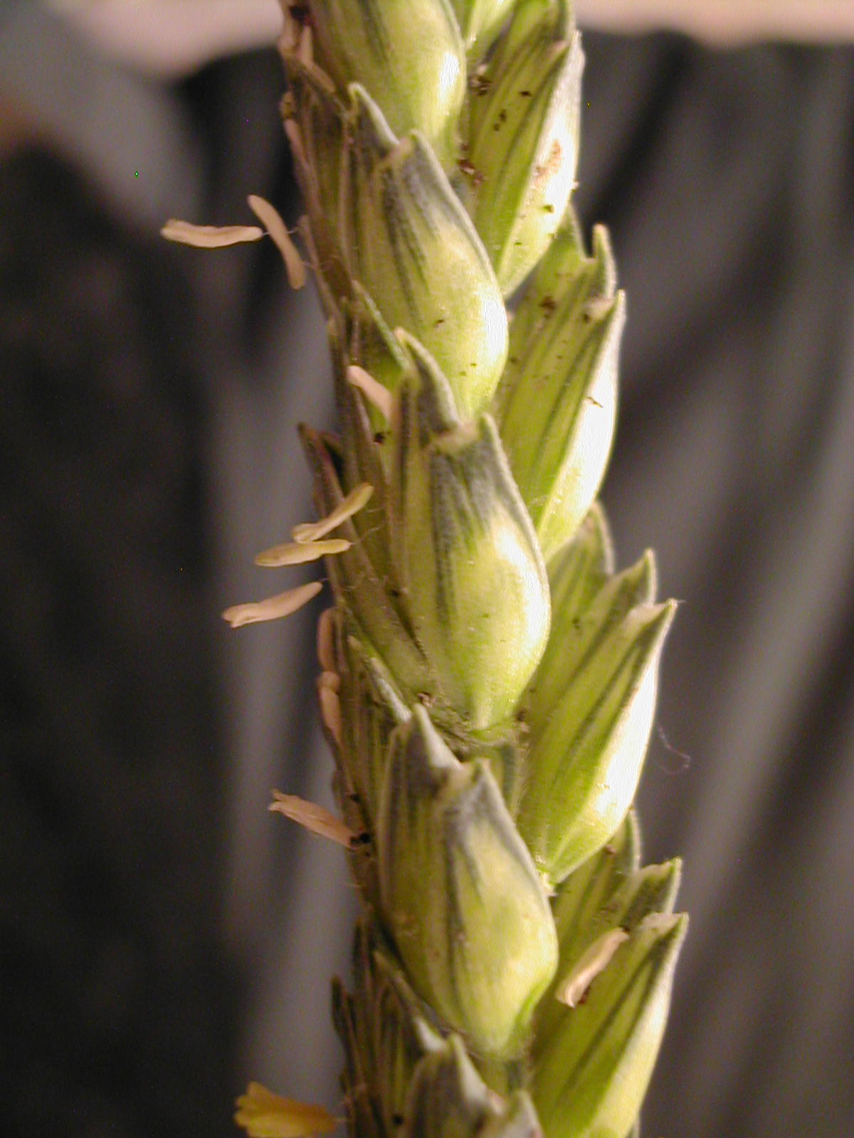 Winter wheat (Triticum) ear in France – side view; development stage: anthesis (male flowering).